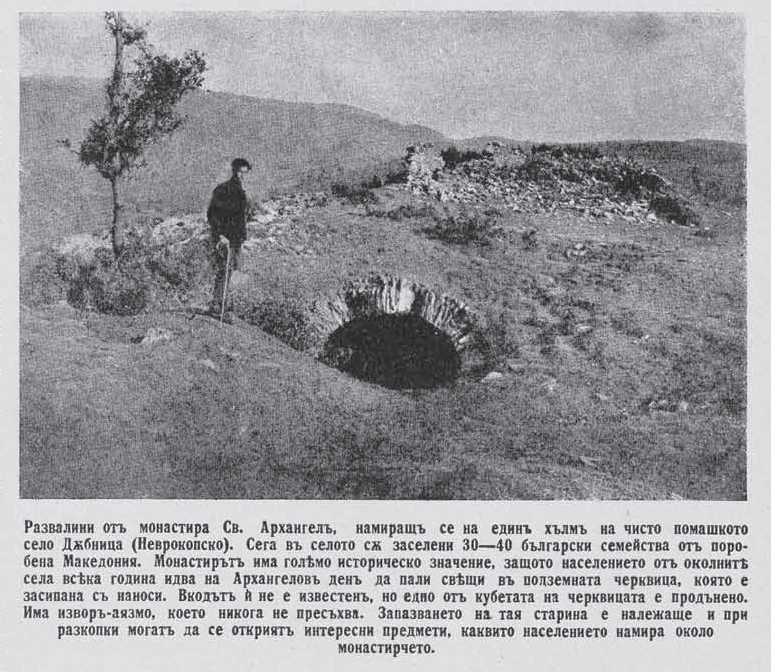 Village of Dubnitsa